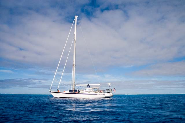 yacht anchoring at South Minerva Reef, Tonga, Pacific Ocean